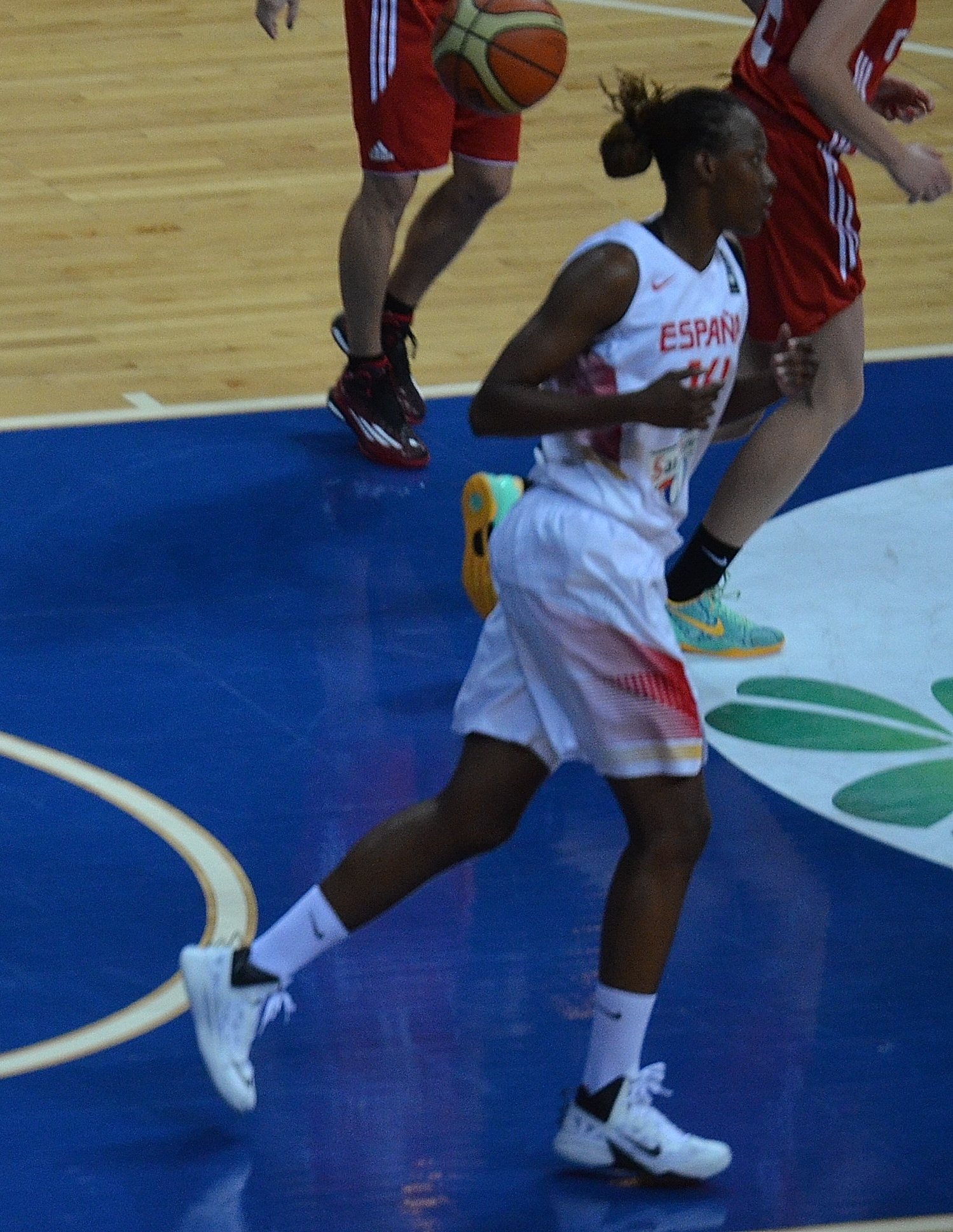 Lara Sanders for Turkey at the 2014 FIBA World Championship for Women